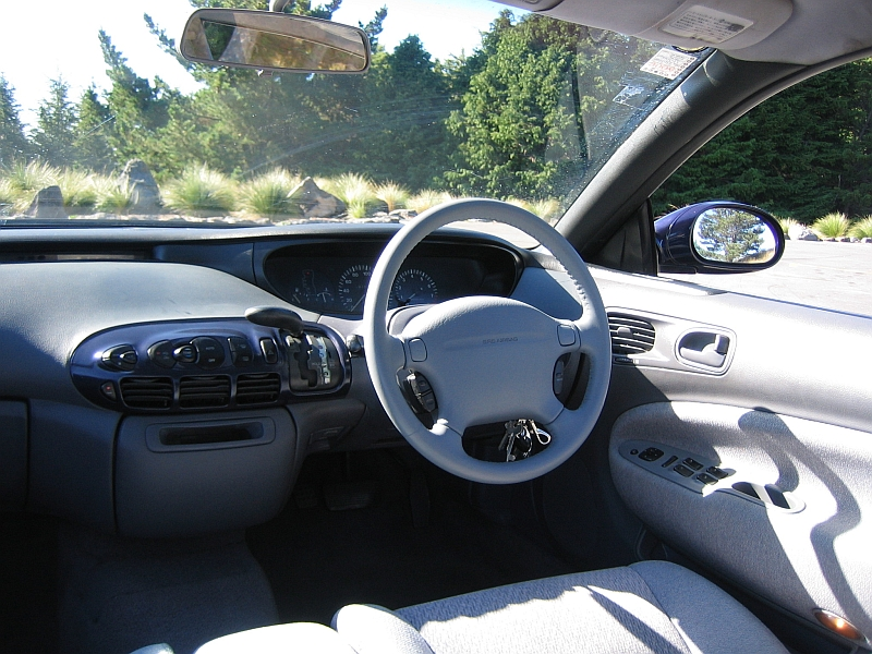 1992 Ẽfini MS-8 2.5 V6 interior